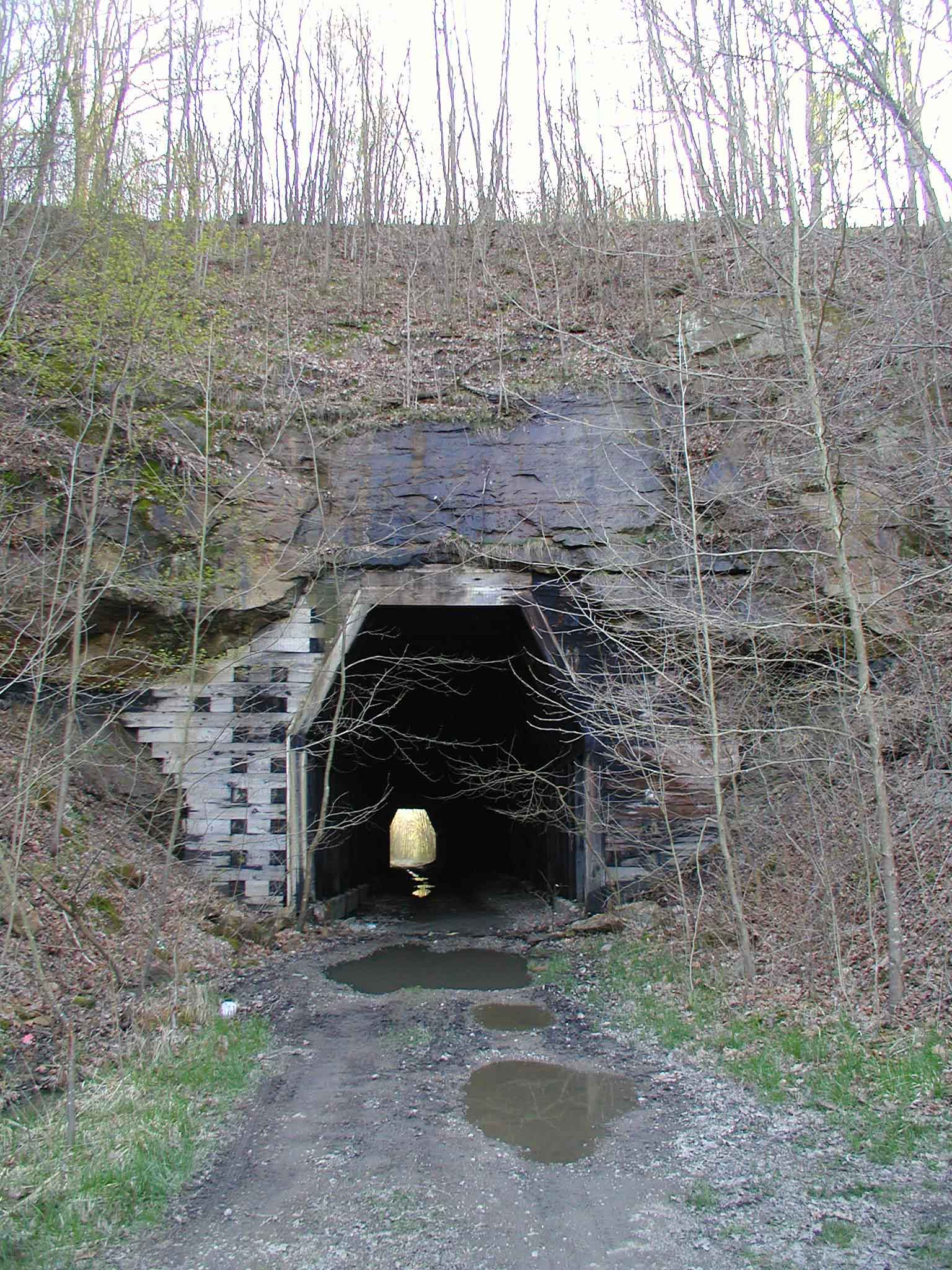 View through the King Switch Tunnel on the former B&O Railroad, in Waterloo Township, Athens County, Ohio, United States